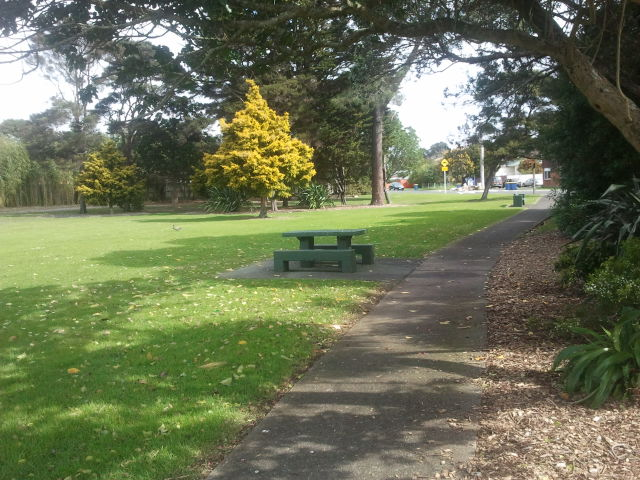 Green Bay, New Zealand